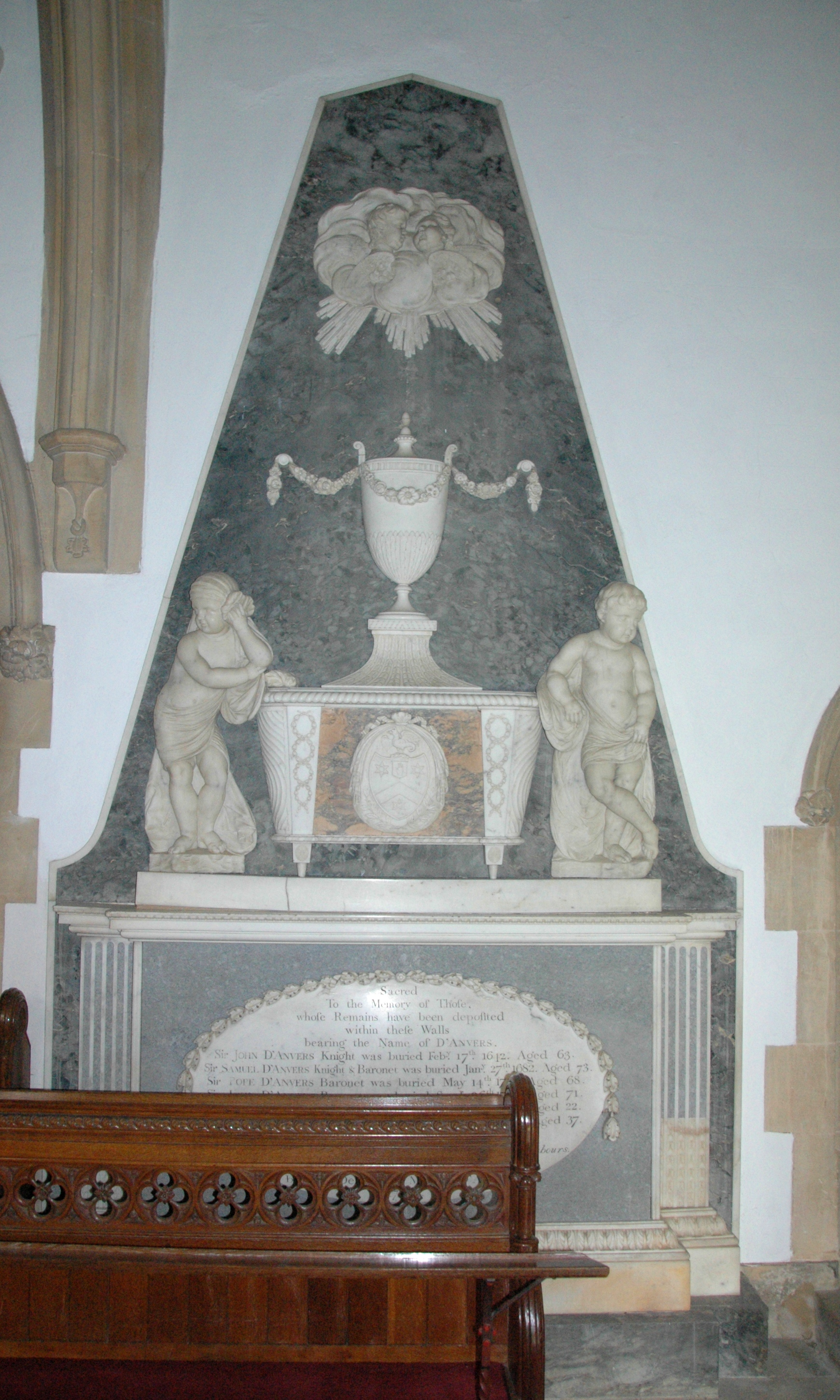 Church of England parish church of St Mary the Virgin, Culworth, Northamptonshire: monument to members of the D'Anvers family.